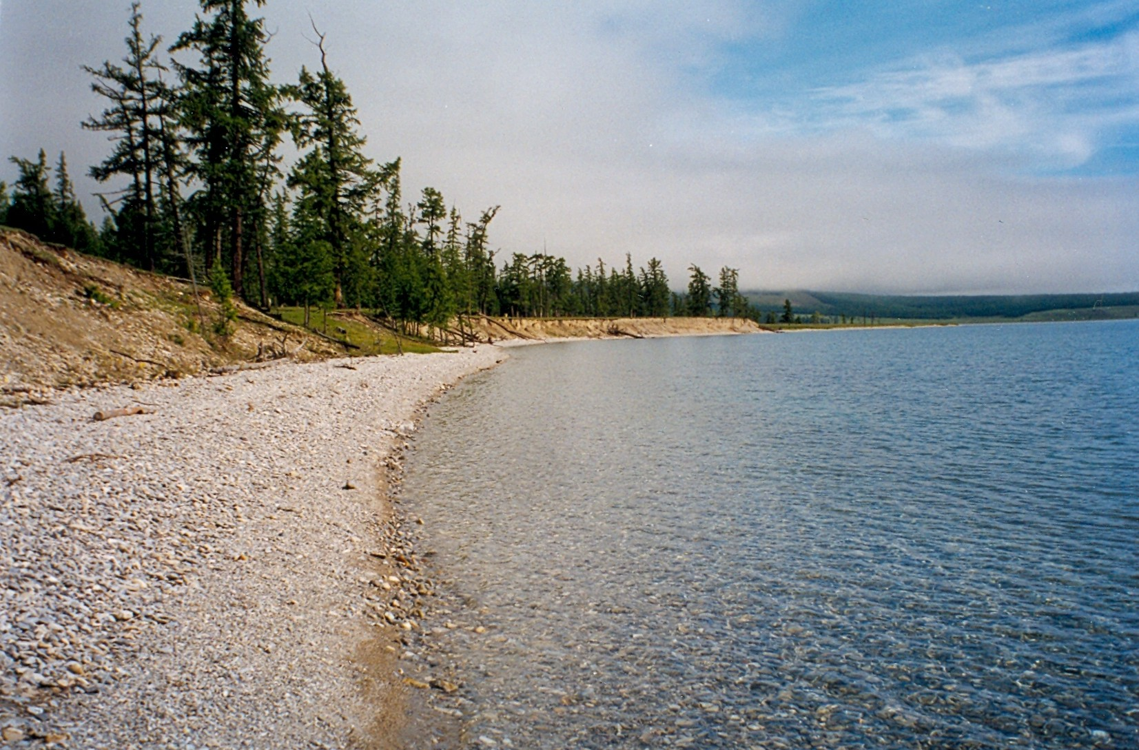 Lake Khövsgöl, Mongolia.